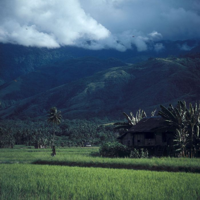 Mountains, rice fields and pile houses near Palu